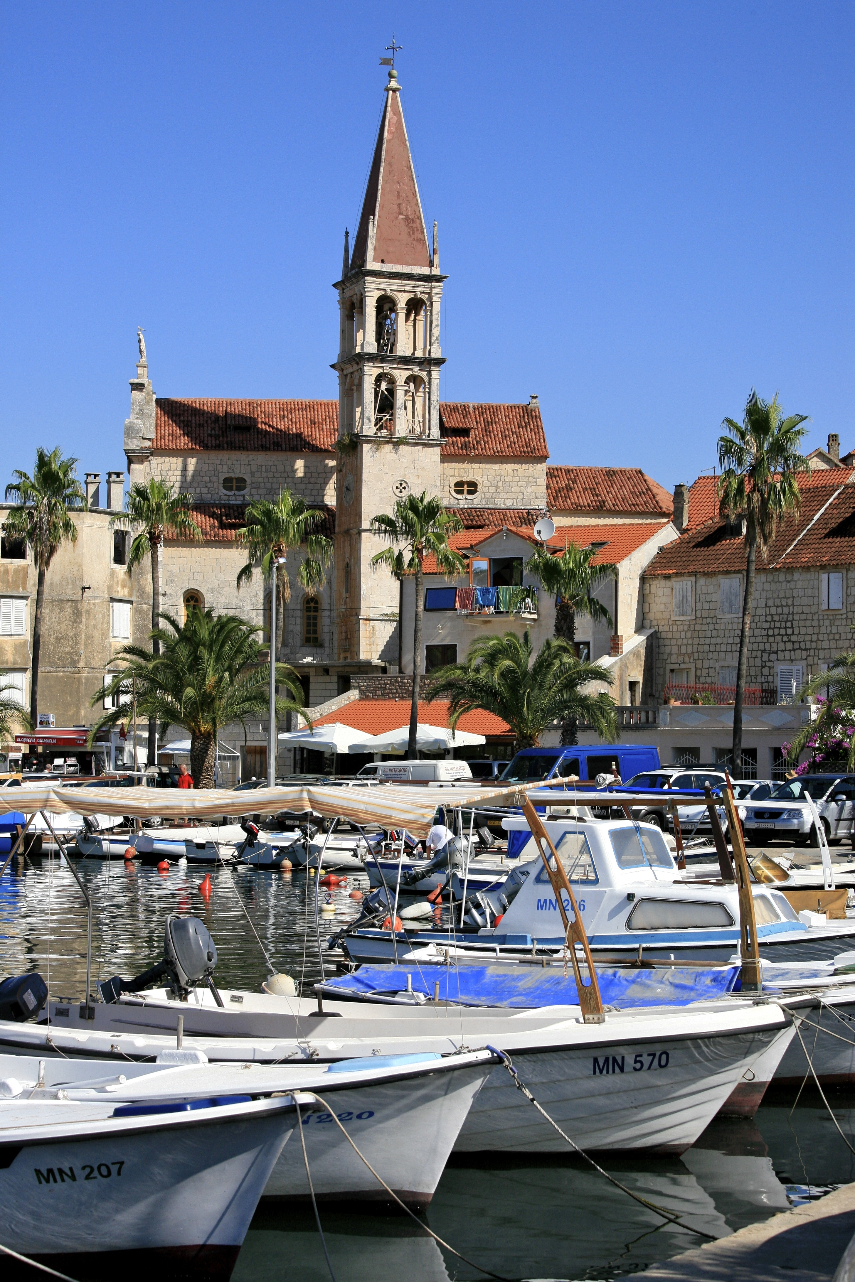 Church and the Port of Milna, Croatia.